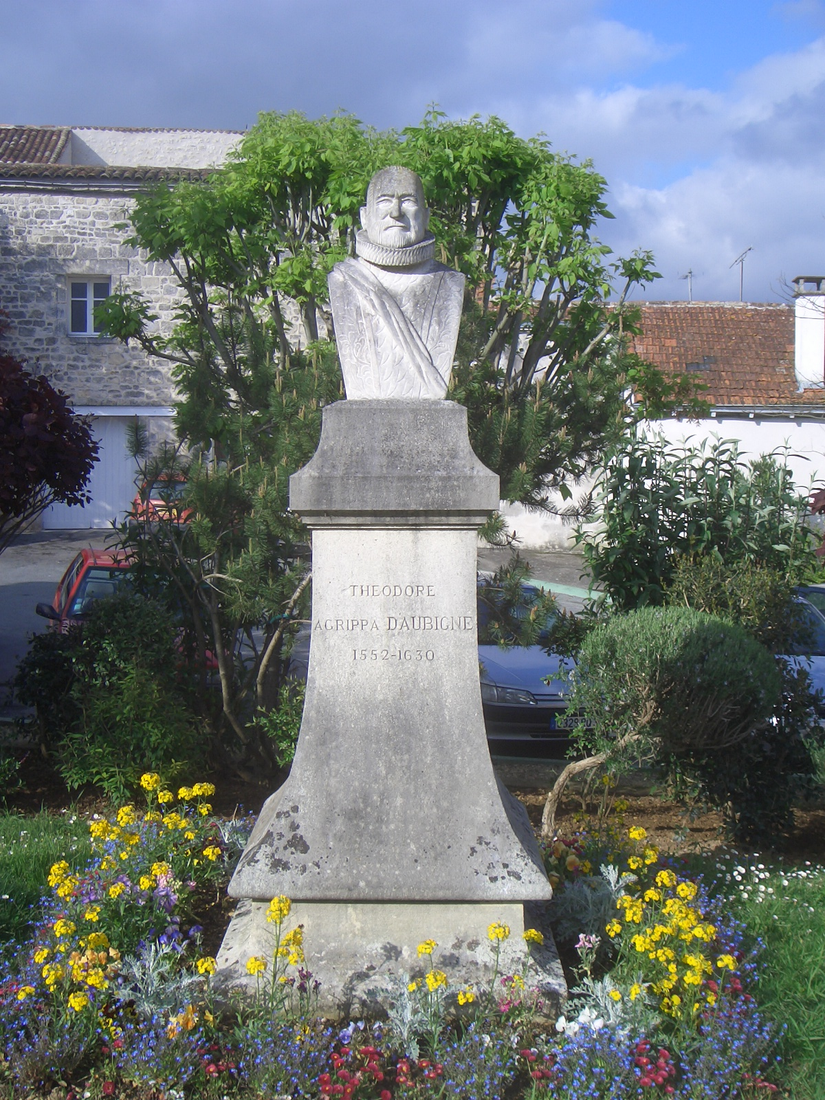 Sculpture of Theodore Agrippa D'Aubigné in Pons (Charente-Maritime), Rue St. Jacques